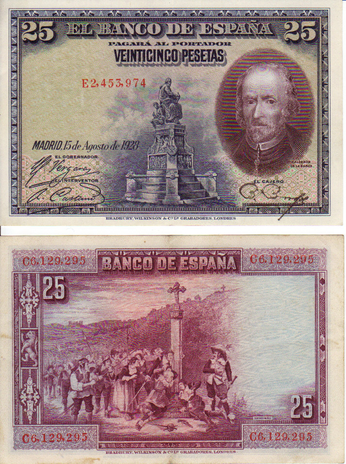 Saonish monarchic pre-war bank note 25 peseta, observe and reverse Scan from own collection